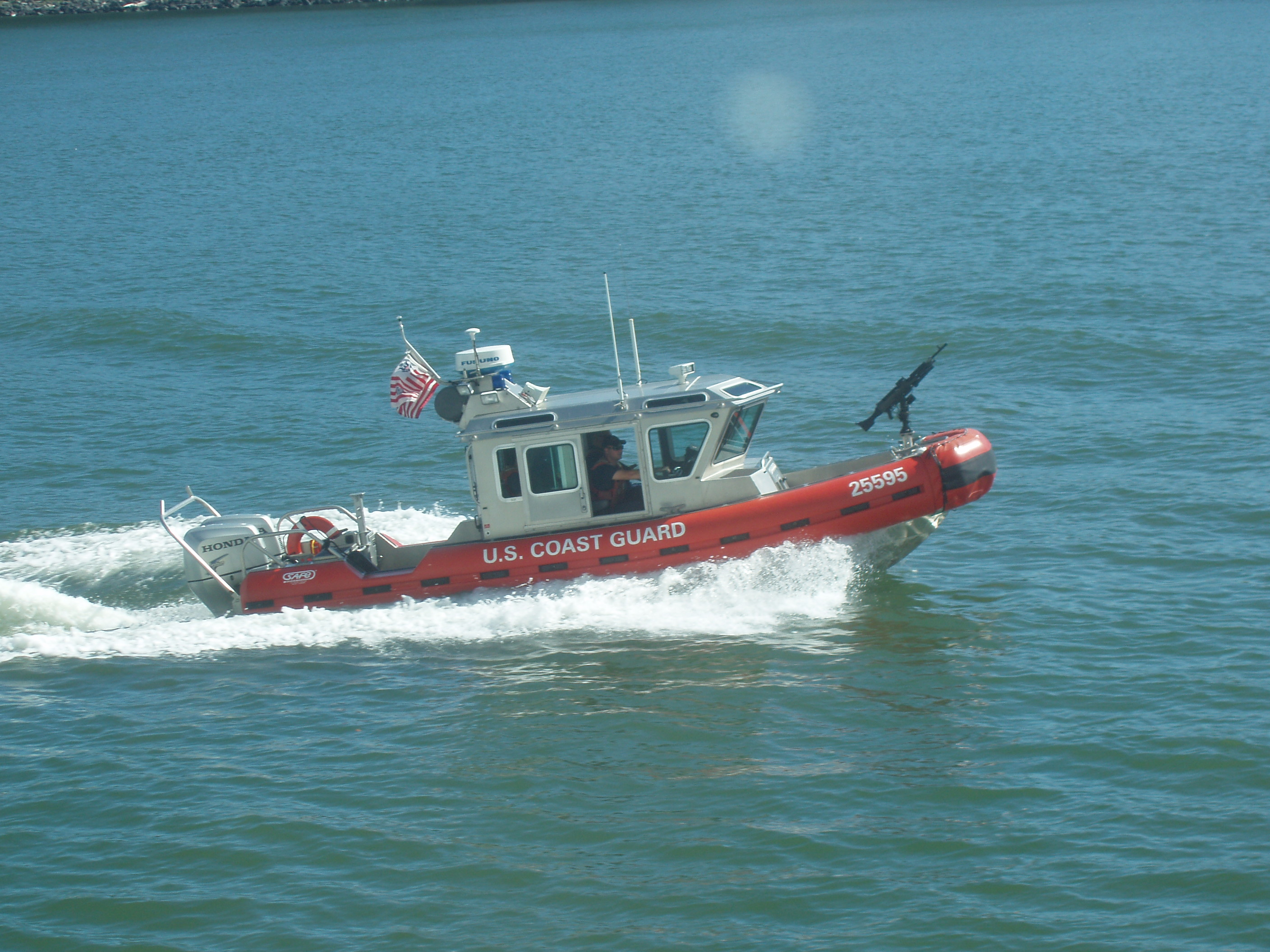 A USCG Defender class boat in the waters off San Juan, Puerto Rico.